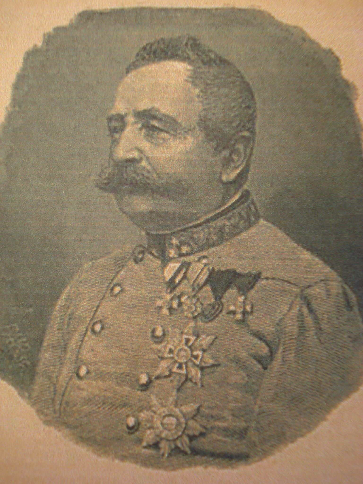 Baron Gabrijel Rodić /Gabriel Rodich/ (1812-1890), Croatian nobleman and general of the Habsburg Monarchy imperial armyHrvatski: Gabrijel barun Rodić (1812-1890), hrvatski plemić i general carske vojske Habsburške Monarhije